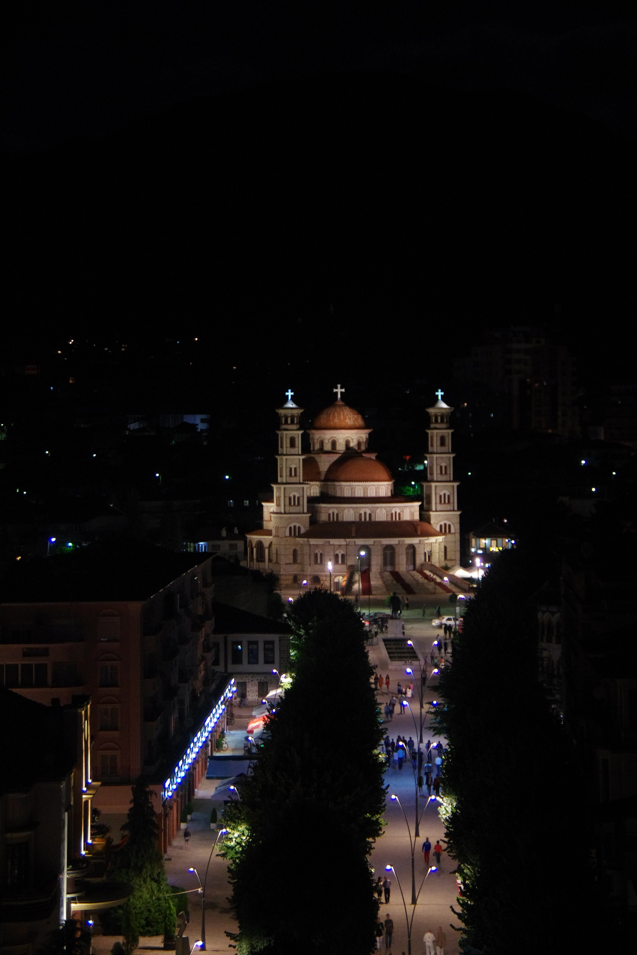 Korce